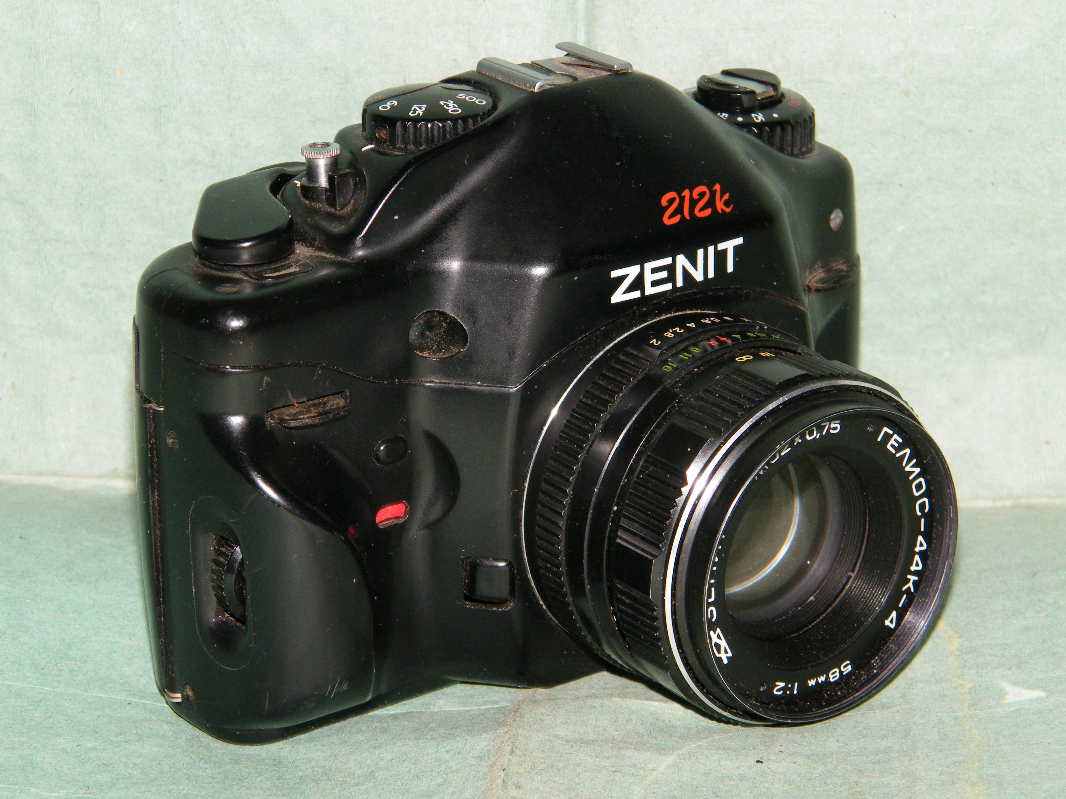 Zenit 212k